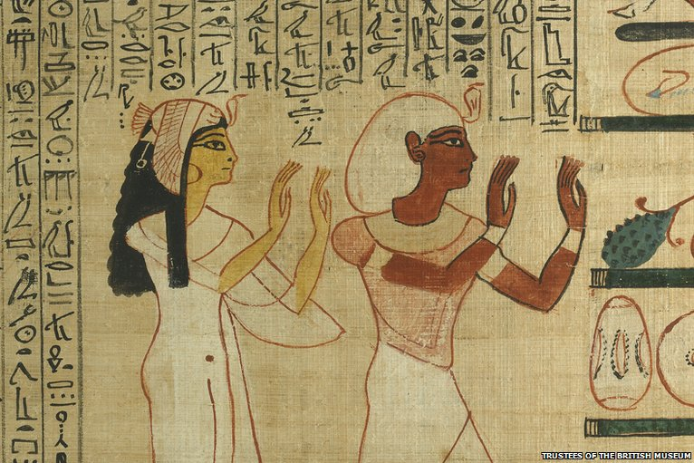 King Herihor and Queen Nodjmet adoring the god Osiris in the afterlife. From the Book of the Dead papyrus of Nodjmet, c. 1050 BC.